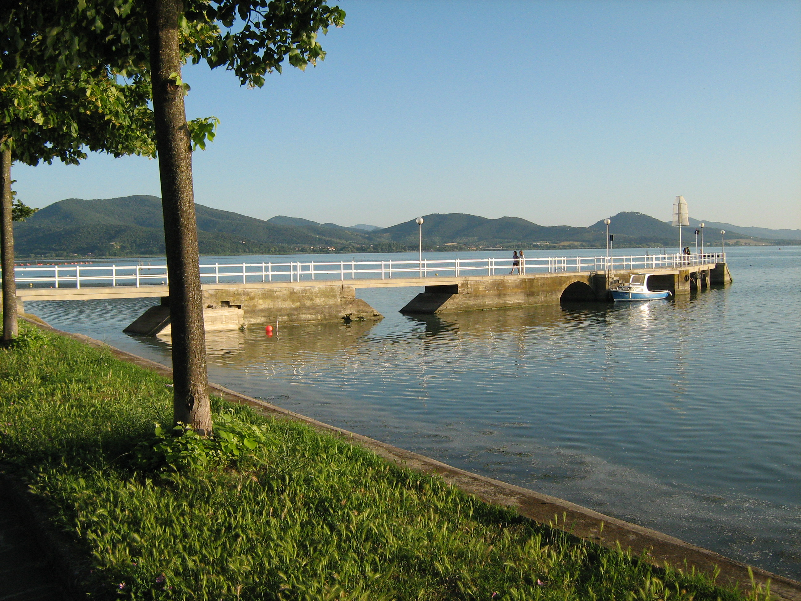 The pier in San Feliciano, Lake Trasimeno. June 2008.